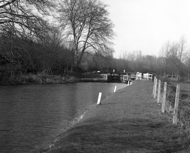 Copse Lock, Kennet and Avon Canal Copse Lock looks immaculate in this 1976 photograph. This lock is remote from roads and can only be accessed by walking along the towpath.